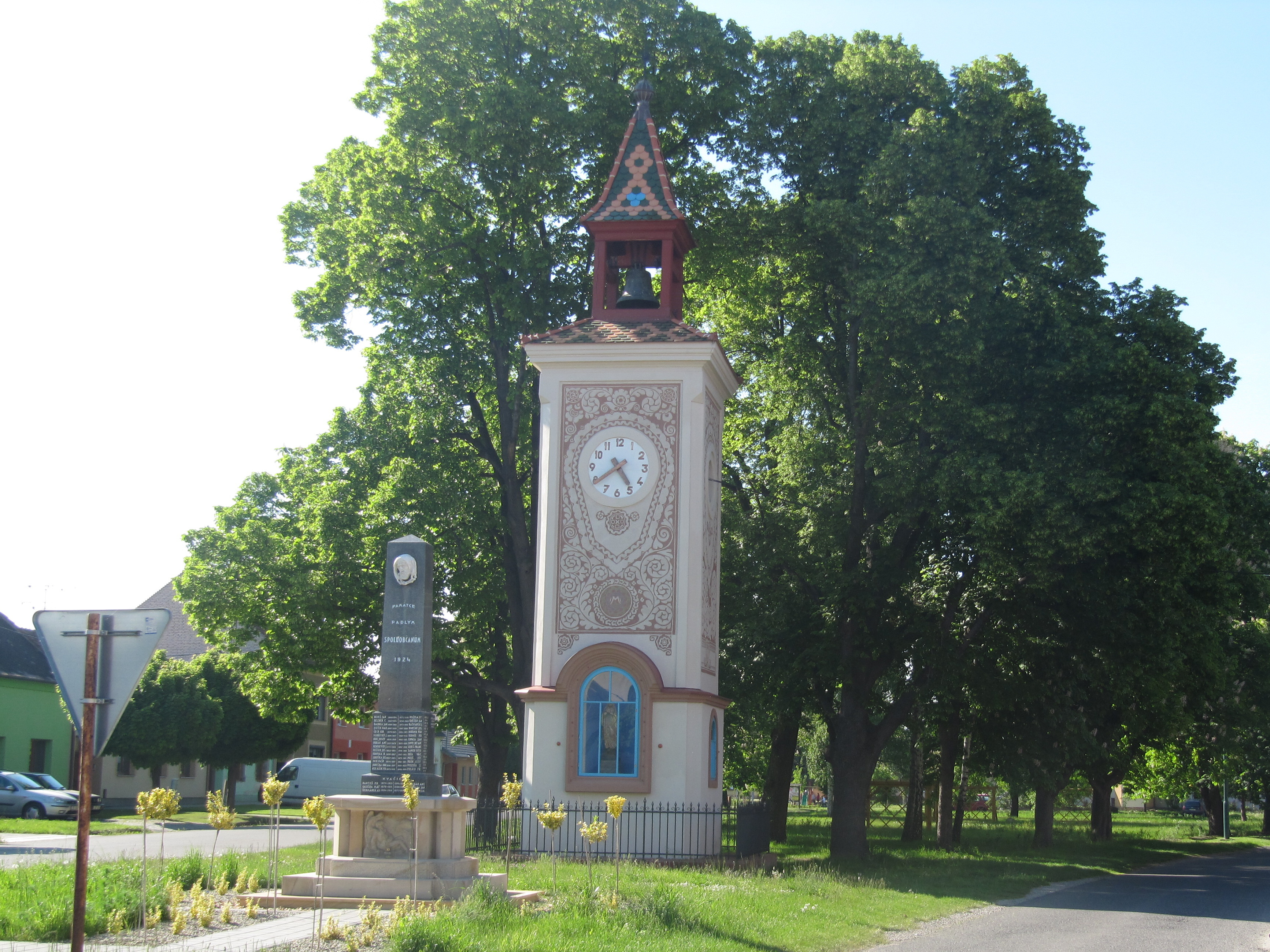 Uherský Ostroh in Uherské Hradiště District, part Ostrožské Předměstí, Czech Republic. Belfry and First World War monument. This photograph was taken within the scope of the third year of the 'Czech Municipalities Photographs' grant.